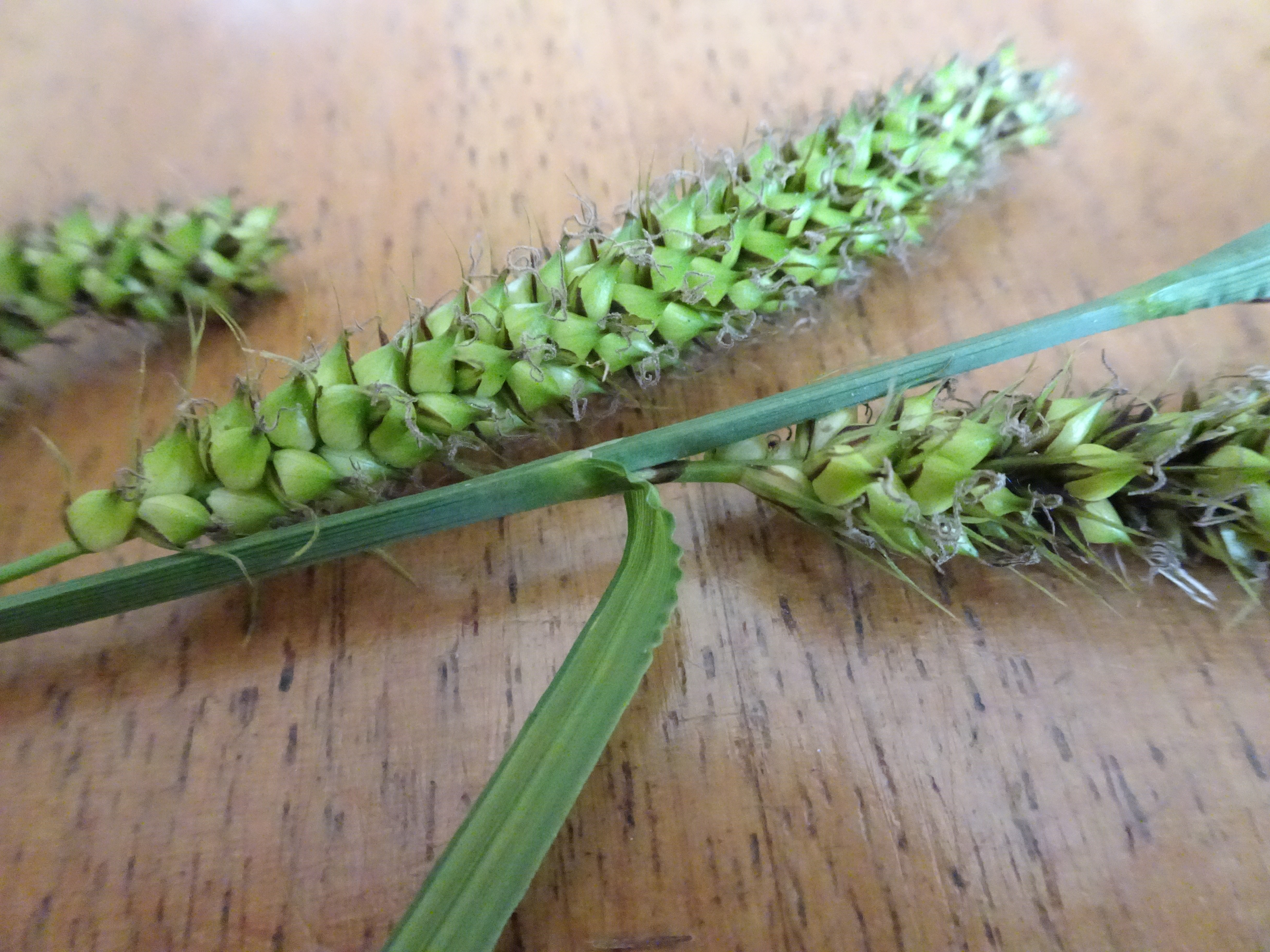 Carex riparia, bract back folded, cladoprophyll